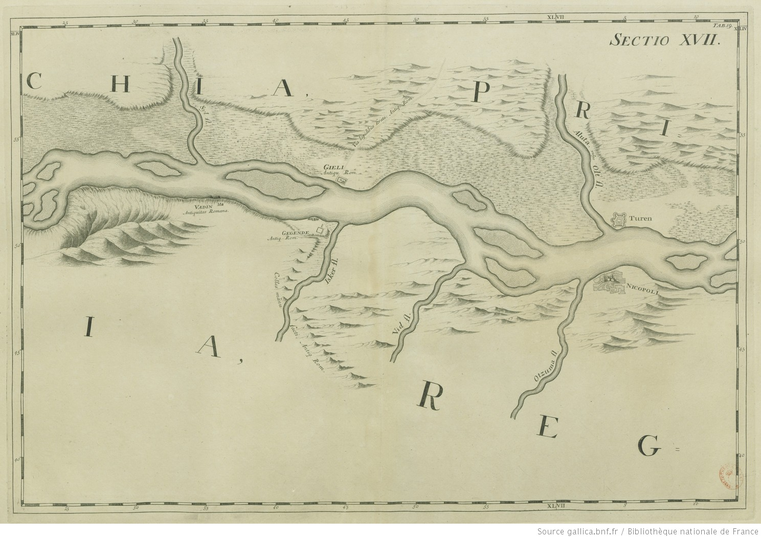 Nicopolis and Turnu fortresses by Luigi Ferdinando Marsigli